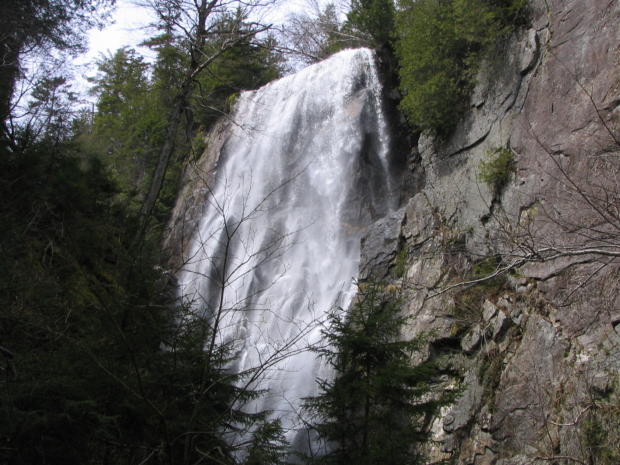 Rainbow Falls, West River Trail, Ausable Club (AMR), St. Huberts, NY, USA